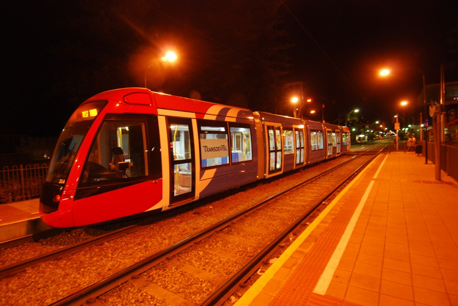 Former Madrid Citadis tram 167 (now renumbered 204 in the Adelaide numbering system) is seen under test in the very early hours of the morning on Tuesday, 17th of November 2009. The location is Brighton Road tram stop, 800 metres short of the terminus of Glenelg.